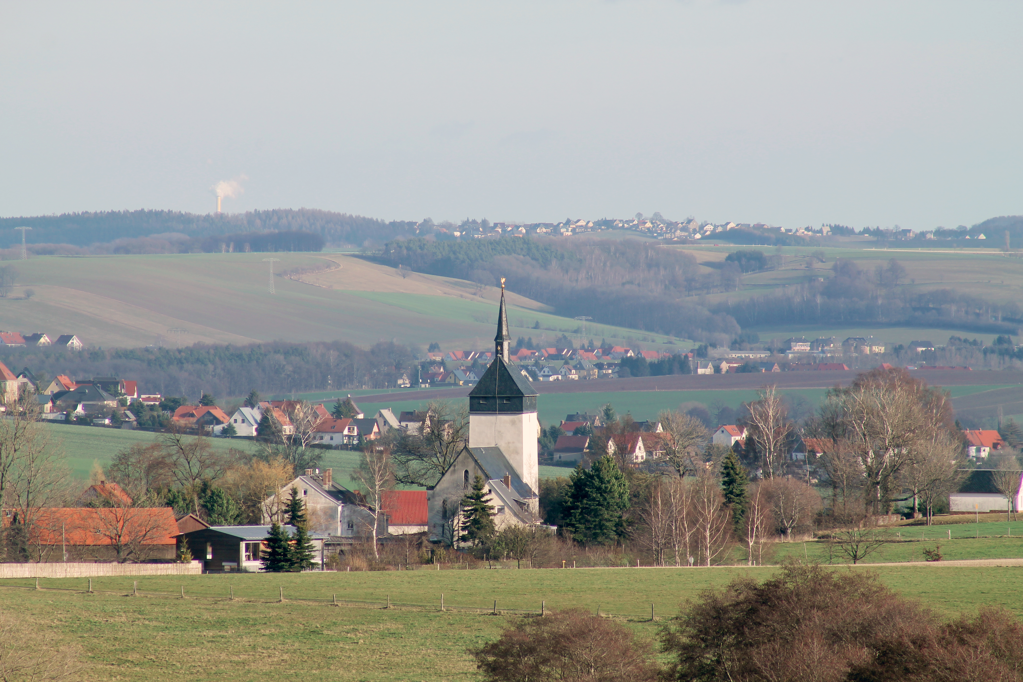 Rottmannsdorf, a small village in Zwickau. City of Zwickau, Saxony, Germany.